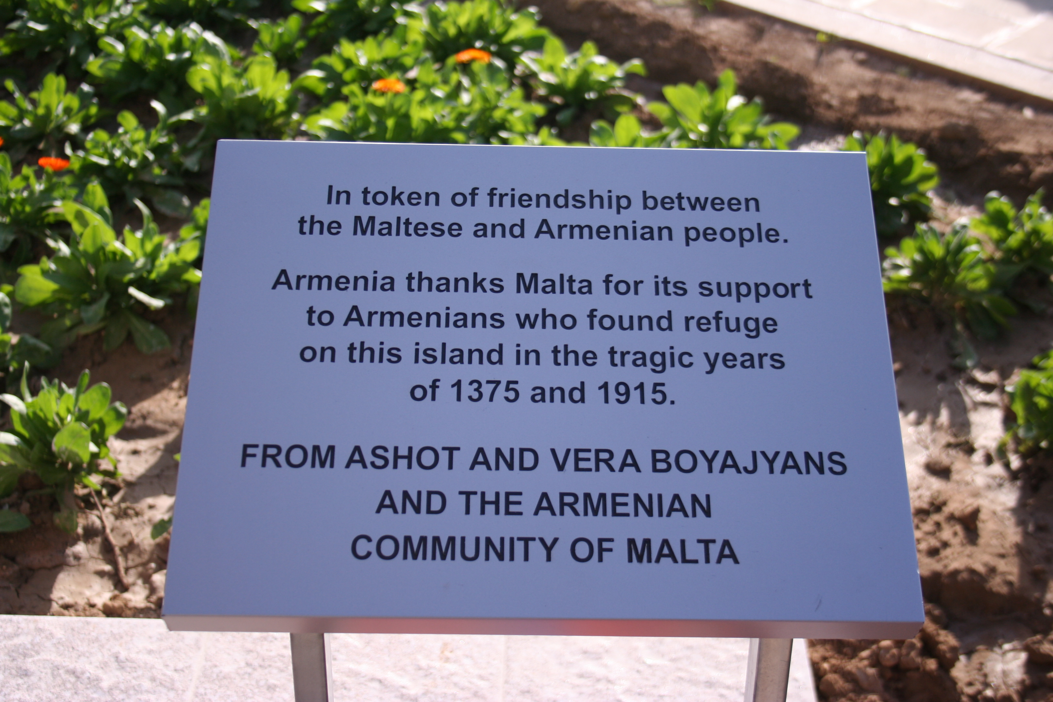 Memorial board, situated at the Khachqar, erected in the centre of Valletta, Malta, on 22nd of December 2009 by Ashot and Vera Boyajyans and the Armenian Community of Malta. The khachkar symbolizes the friendship between the Matese and the Armenian nations.